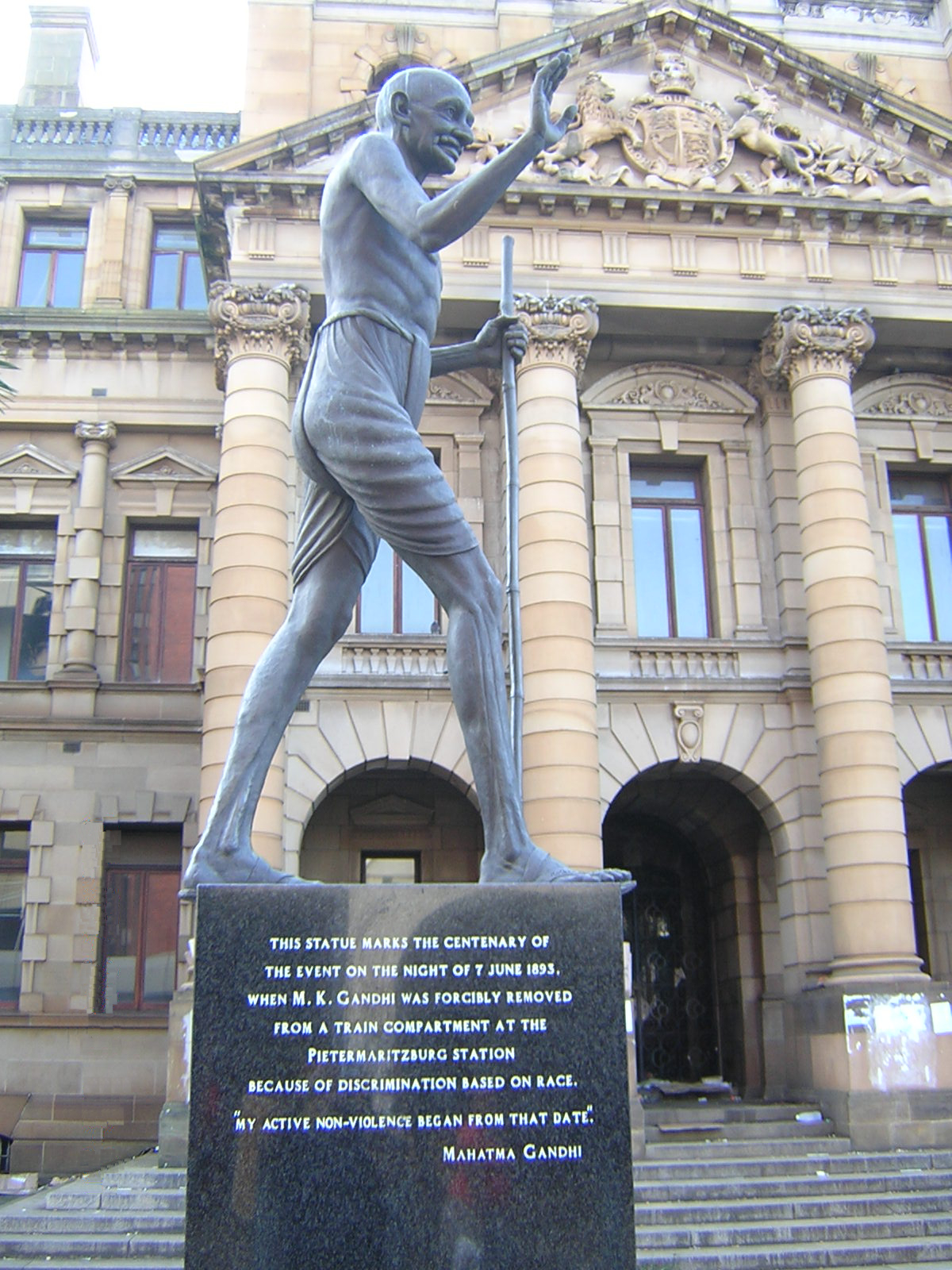 This is Gandhi Jee's statue in Peitermaritzburg